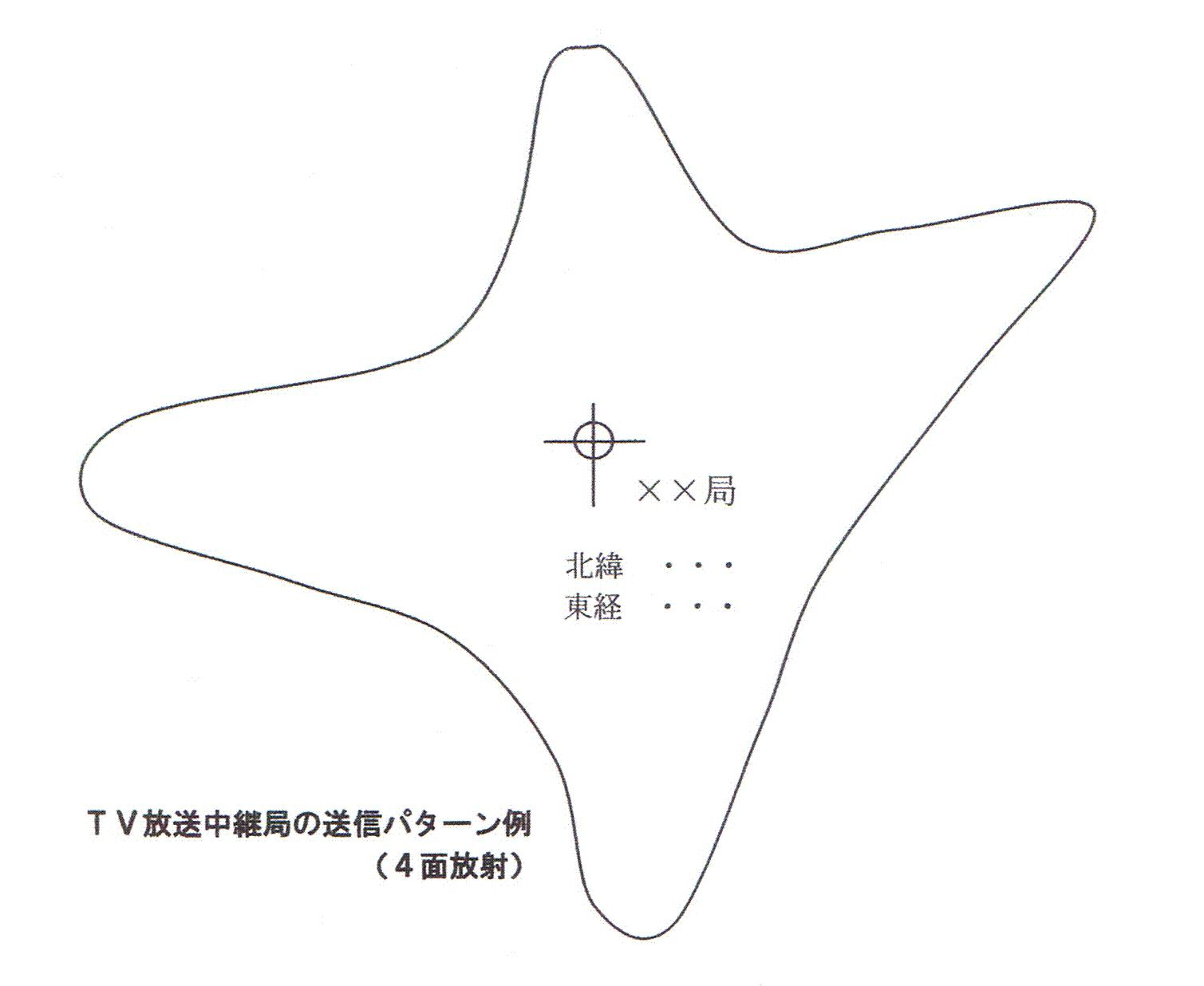 Example of radiation pattern of television satellite transmission antenna of Japan. SCCKAHAN drawing